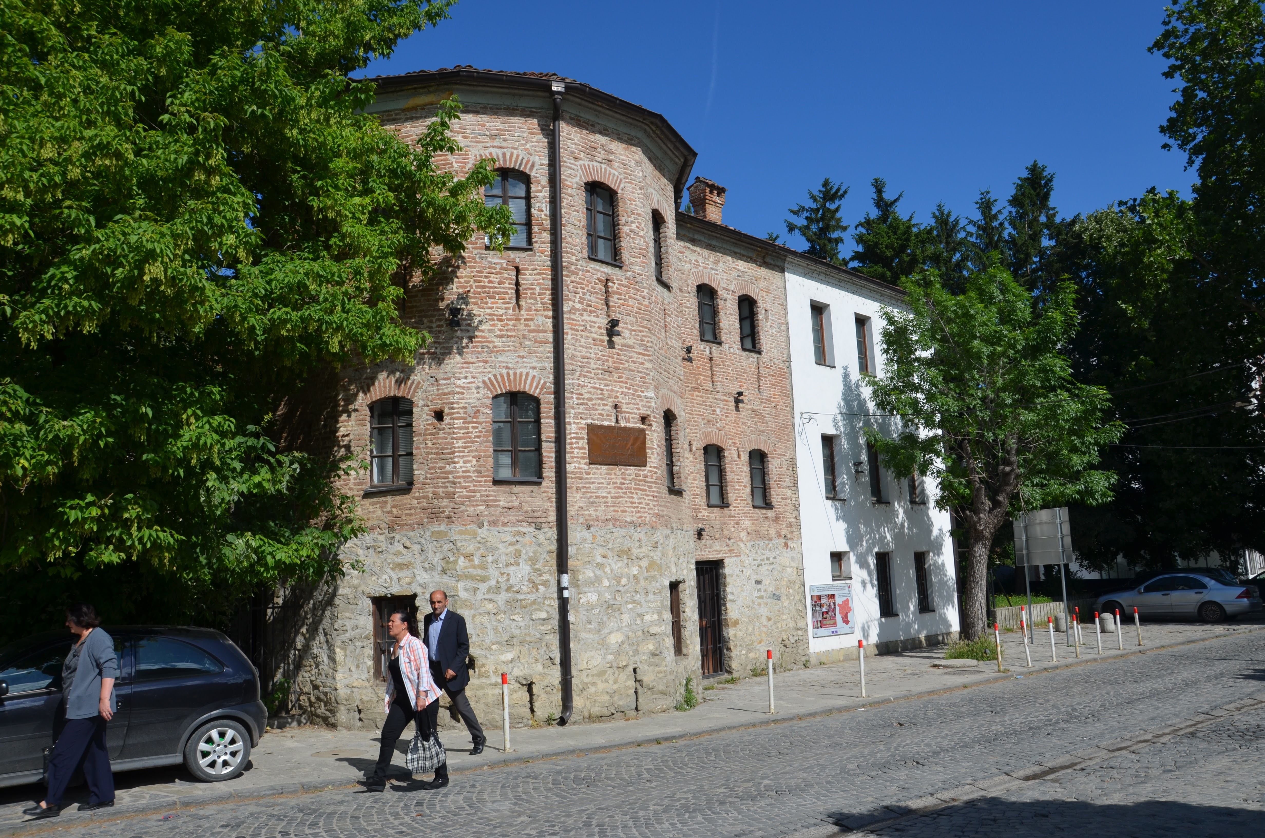 The kulla of Abdullah Dreni in Gjakovë, Kosovë